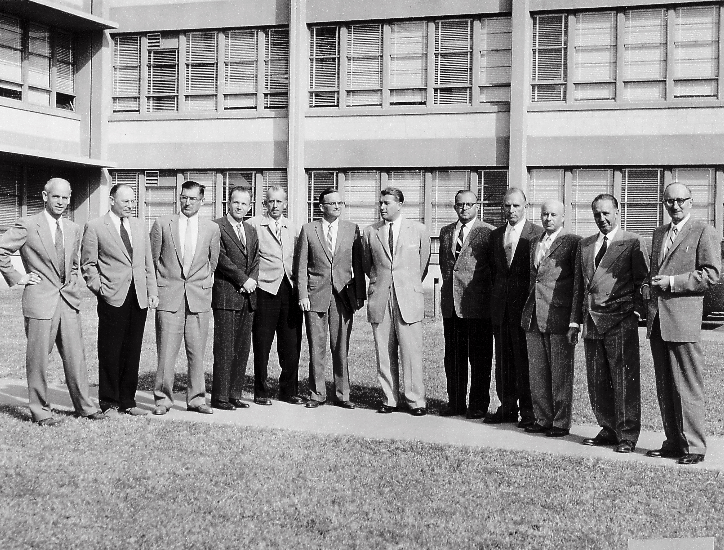 Twelve scientific specialists of the Peenemuende team at the front of Building 4488, Redstone Arsenal, Huntsville, Alabama. They led the Army's space efforts at ABMA before transfer of the team to National Aeronautic and Space Administration (NASA), George C. Marshall Space Flight Center (MSFC). (Left to right) Dr. Ernst Stuhlinger, Director, Research Projects Office; Dr. Helmut Hoelzer, Director, Computation Laboratory: Karl L. Heimburg, Director, Test Laboratory; Dr. Ernst Geissler, Director, Aeroballistics Laboratory; Erich W. Neubert, Director, Systems Analysis Reliability Laboratory; Dr. Walter Haeussermarn, Director, Guidance and Control Laboratory; Dr. Wernher von Braun, Director Development Operations Division; William A. Mrazek, Director, Structures and Mechanics Laboratory; Hans Hueter, Director, System Support Equipment Laboratory;Eberhard Rees, Deputy Director, Development Operations Division; Dr. Kurt Debus, Director Missile Firing Laboratory; Hans H. Maus, Director, Fabrication and Assembly Engineering Laboratory